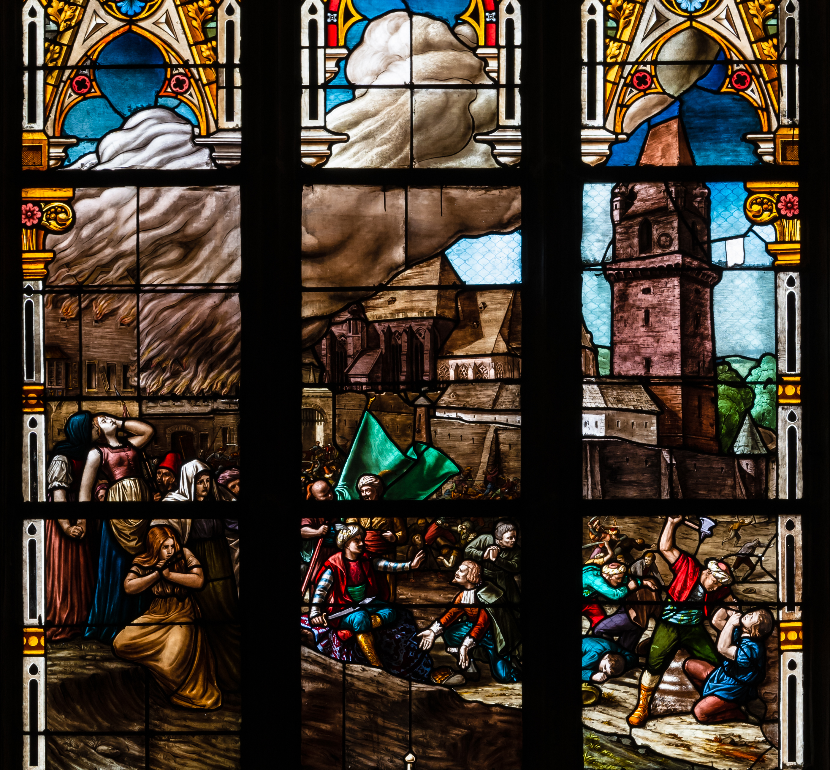 Turks Window at the parish church Perchtoldsdorf, Lower Austria